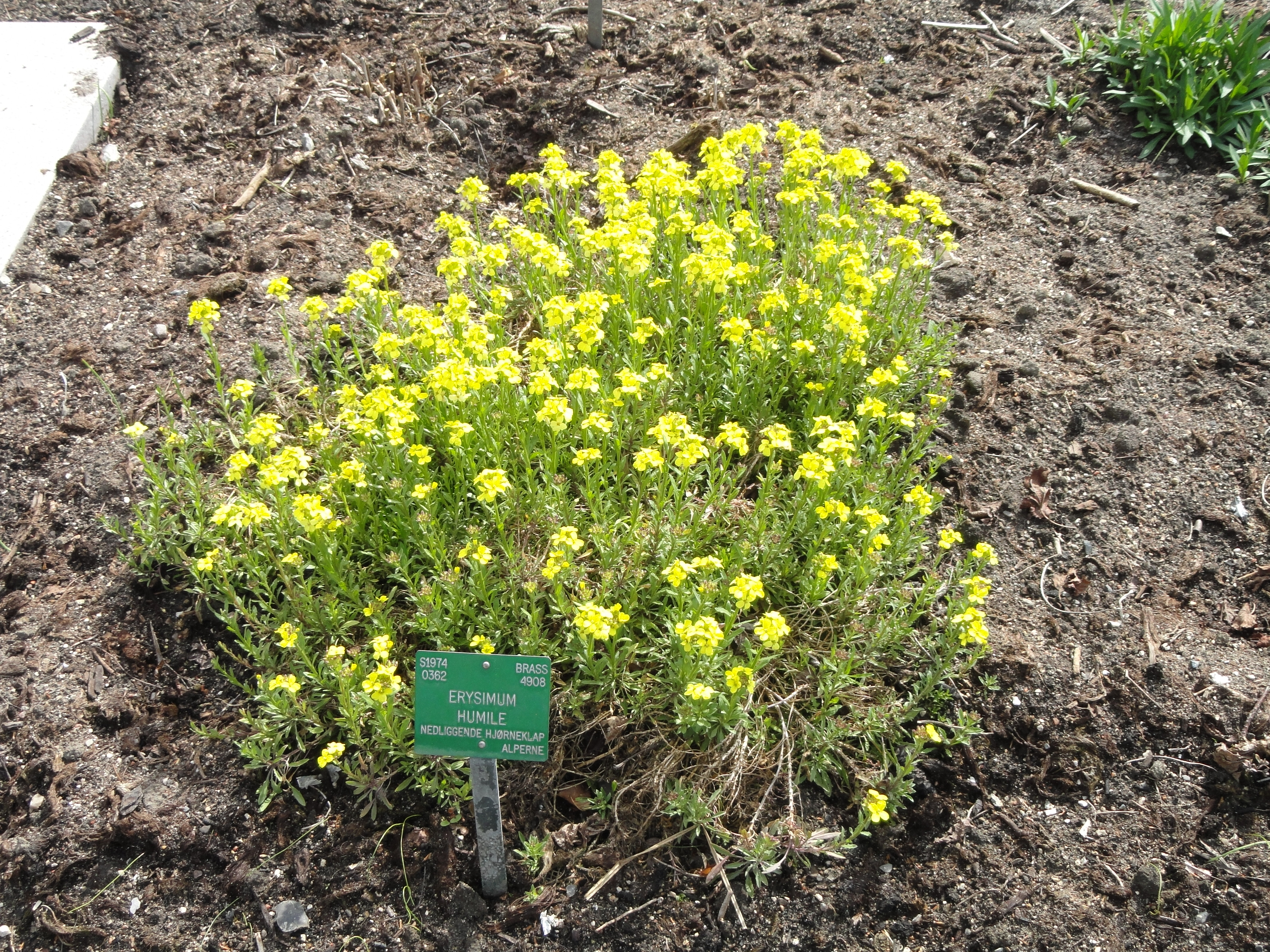 Botanical specimen in the University of Copenhagen Botanical Garden, Copenhagen, Denmark.